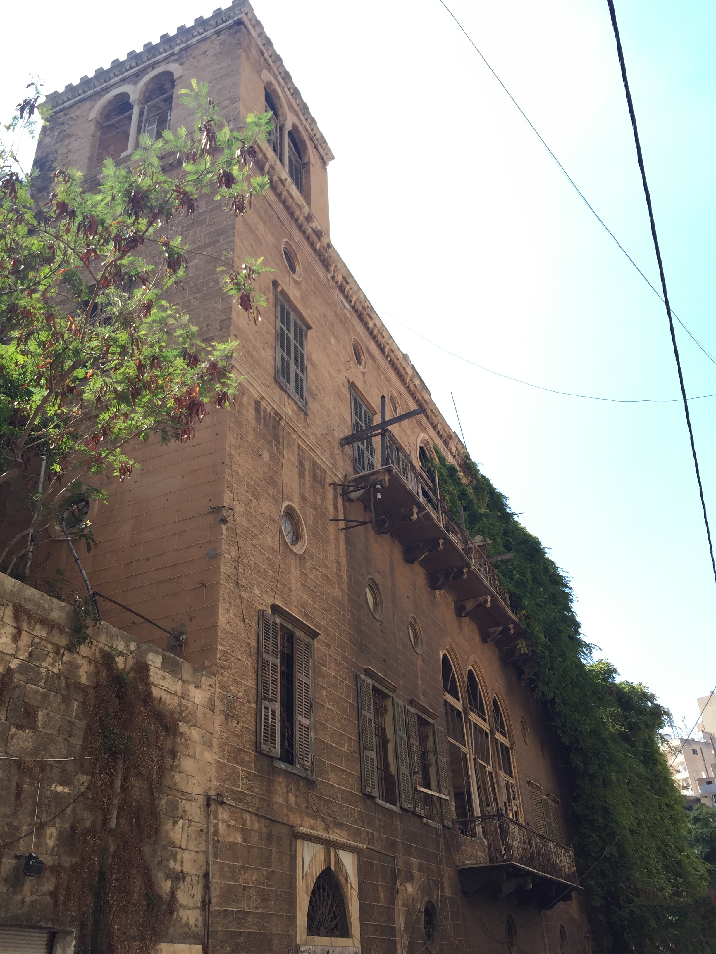 The Ziadé Palace in Zokak el-Blatt in Beirut